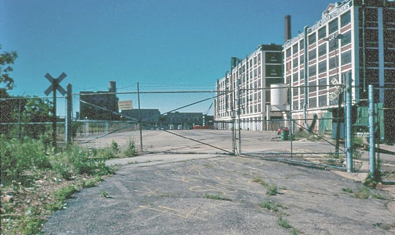 Photo taken in June of 1990 after the Chicago operations were shut down and relocated to Mexico. This view looks south and shows the eastern side of the Stewart-Warner complex as well as the railroad spur that serviced the plant that came off the Chicago & North Western Railroad. Trains traveled through the gates shown in the pictures and the tracks were protected by the pair of crossbucks. The original slide had degraded over the years by the time I scanned it yet it is a rare look at the back of the complex. Note the gang graffiti on the pavement outside the gate.